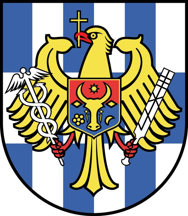 Moldova Court of Accounts coat of arms